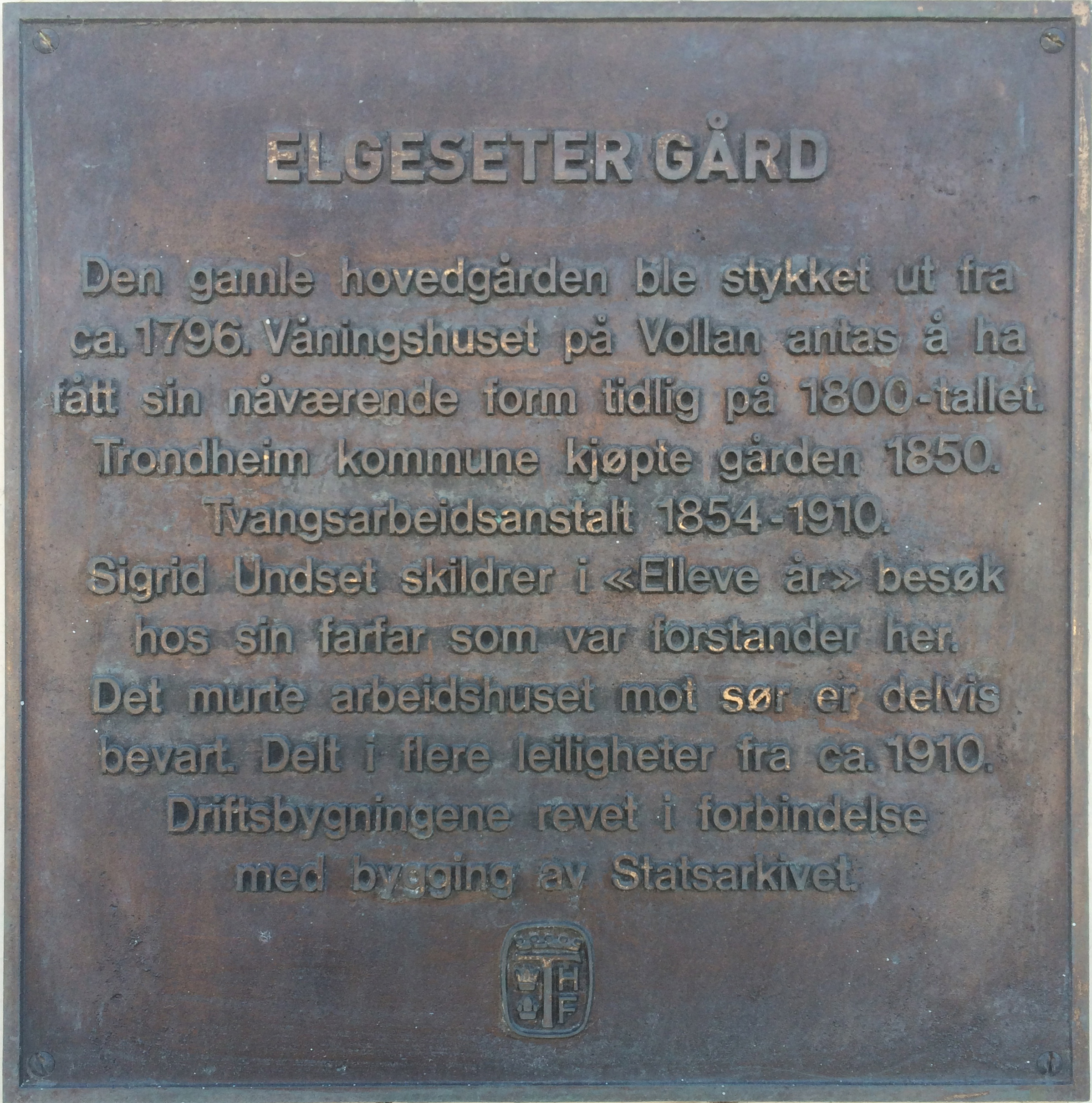 A plaque giving information on the main building of Elgeseter farm in Trondheim, Norway